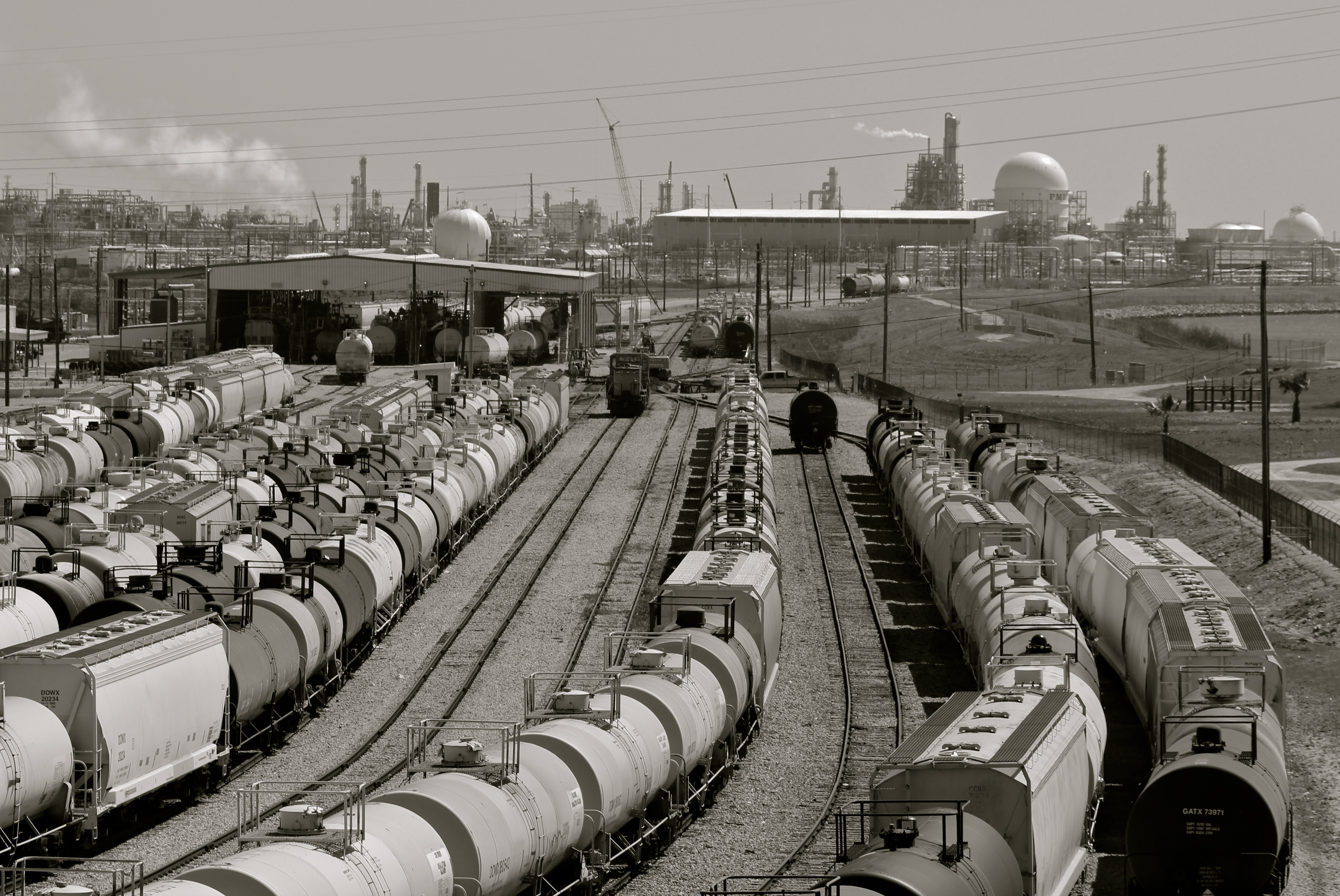 Freeport TX. B&W image.